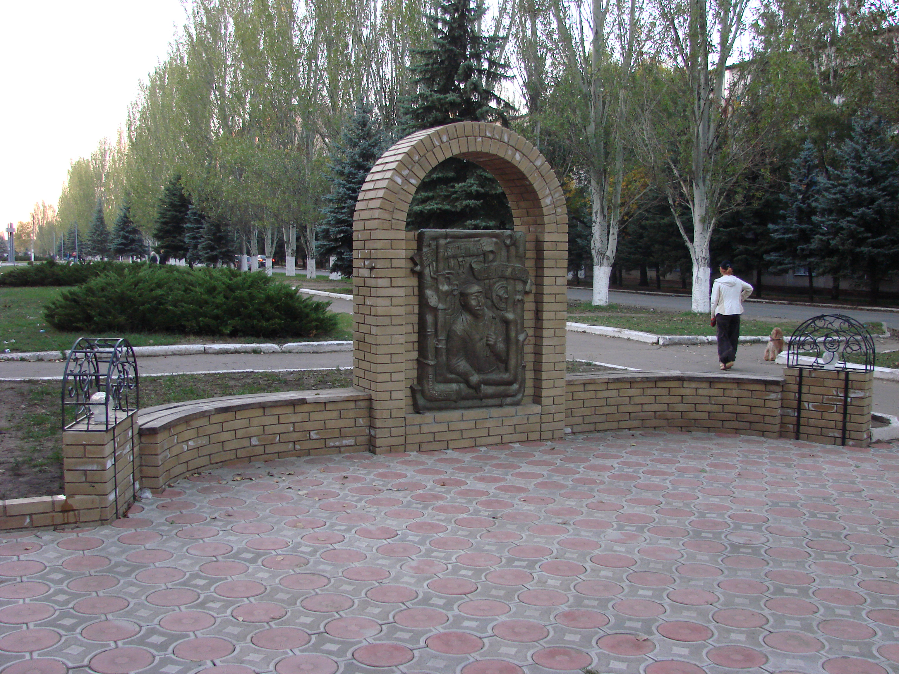 Monument of plumbing specialist (santekhnik). Druzhkivka, Donetsk Oblast, Ukraine